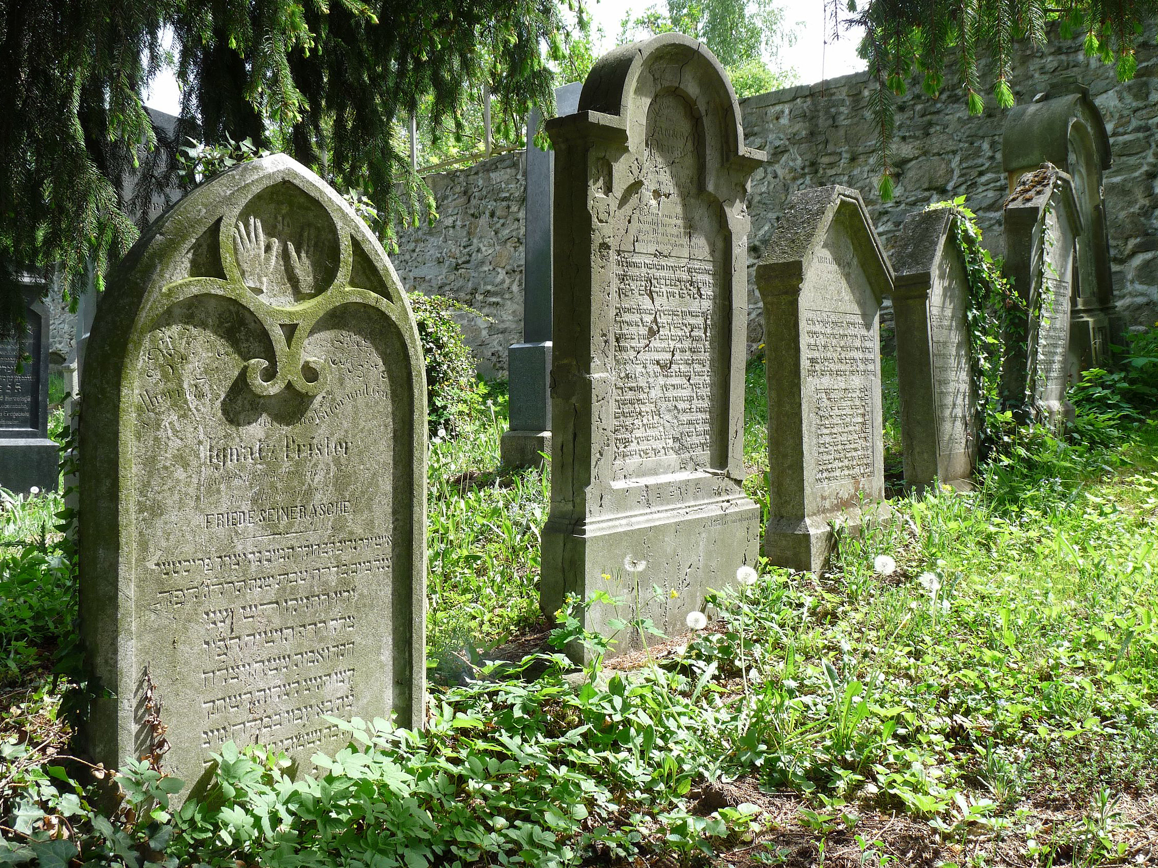 Jewish cemetery in the town of Votice, Benešov District, Central Bohemian Region, Czech Republic, kohanim hands.